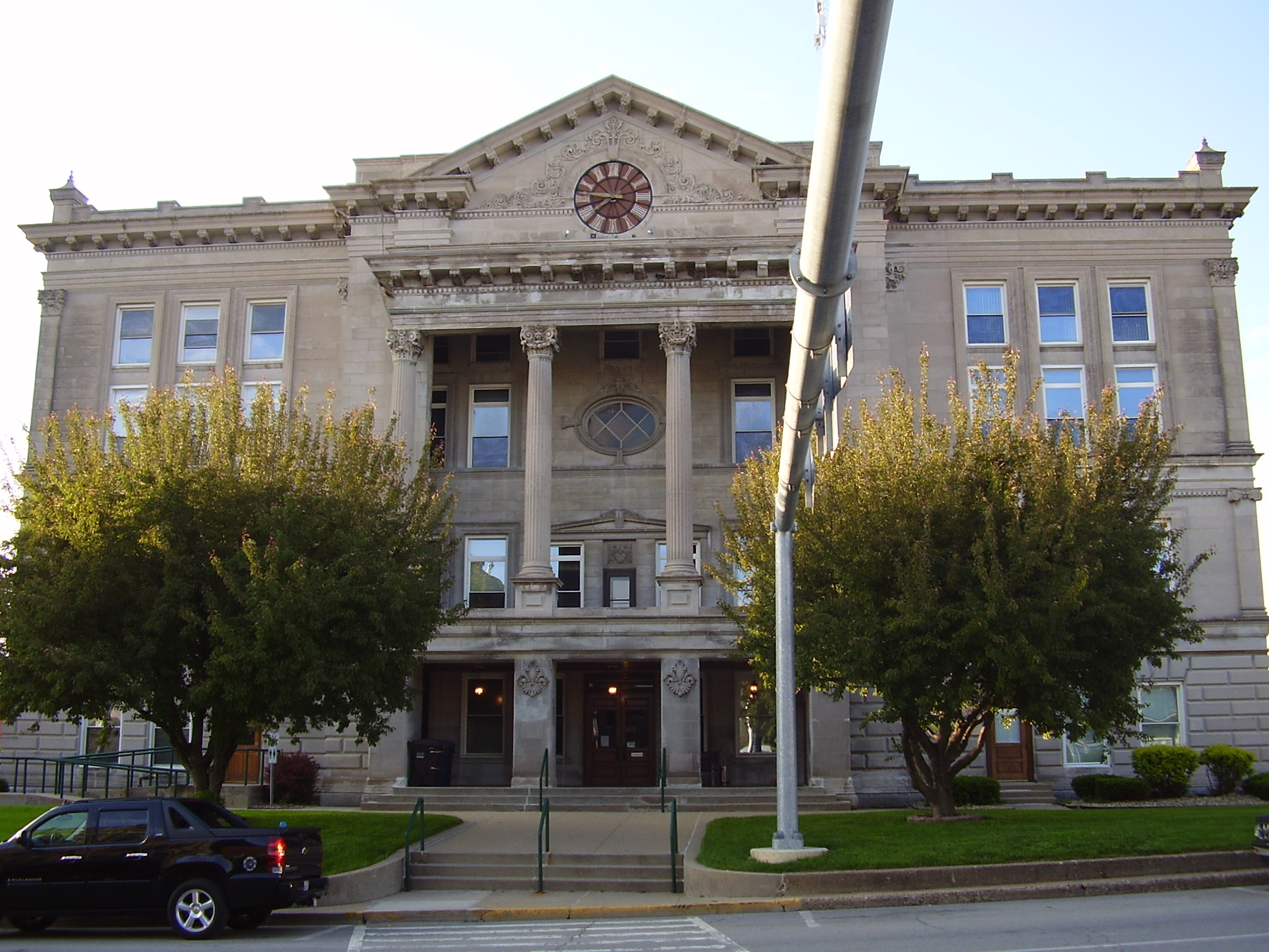 The Putnam County Courthouse in Greencastle, Indiana, United States. Built in 1905, it is part of the Courthouse Square Historic District, a historic district that is listed on the National Register of Historic Places